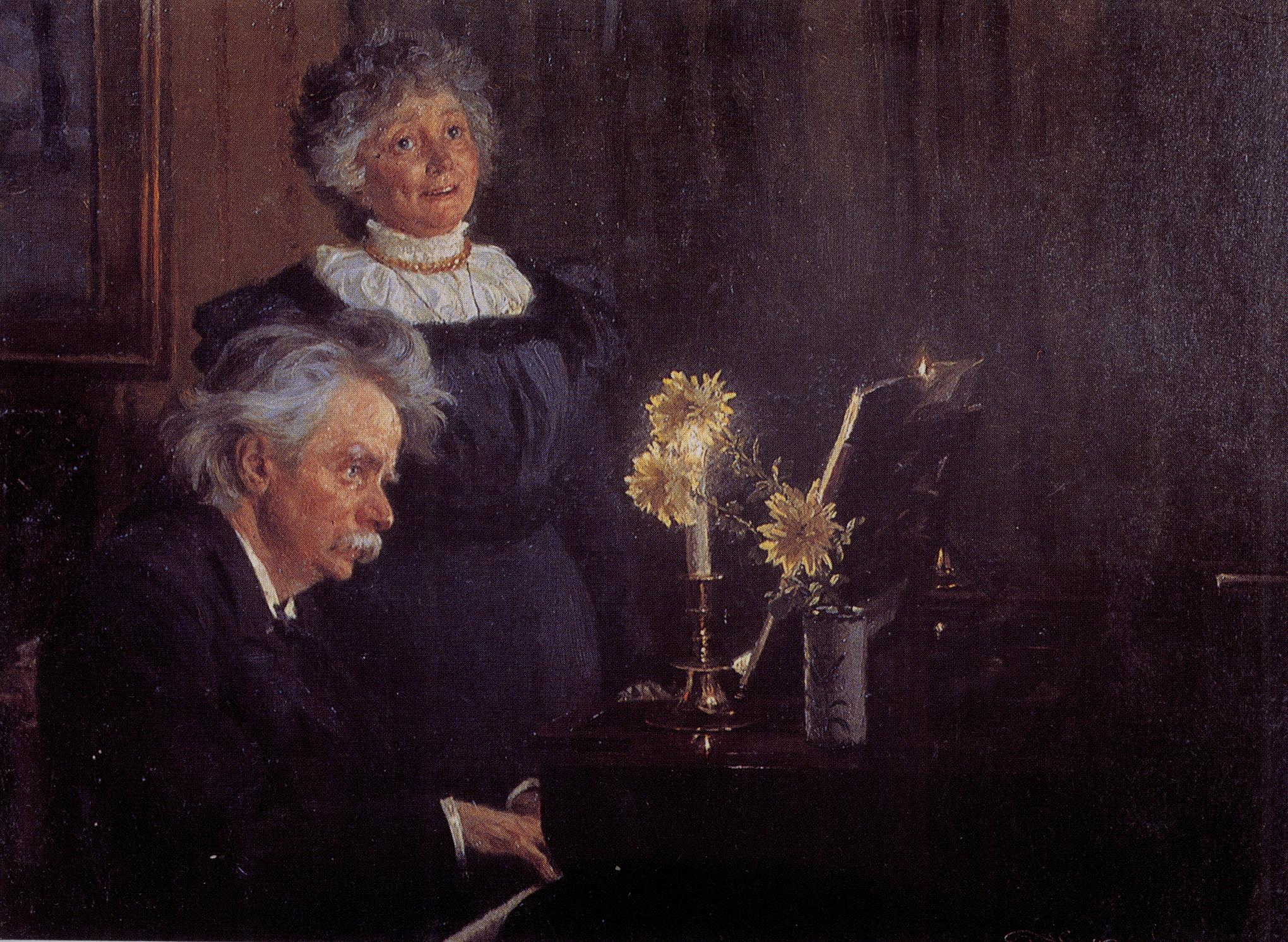 Artist: Peter Severin Krøyer Date/place: ca. 1899, unknown location Subject: Edvard and Nina Grieg Medium: photographic reproduction of original painting Notes: none Persistent URL: [#//nettbiblioteket.no/grieg-samlingen/engelsk/grieg_intro_eng.html” Original belongs to the Edvard Grieg Archives at Bergen Public Library]